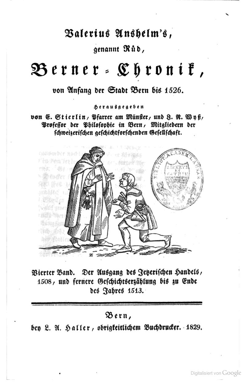 First page of Berner-Chronik Vol 4 from Valerius Anshelm 1829